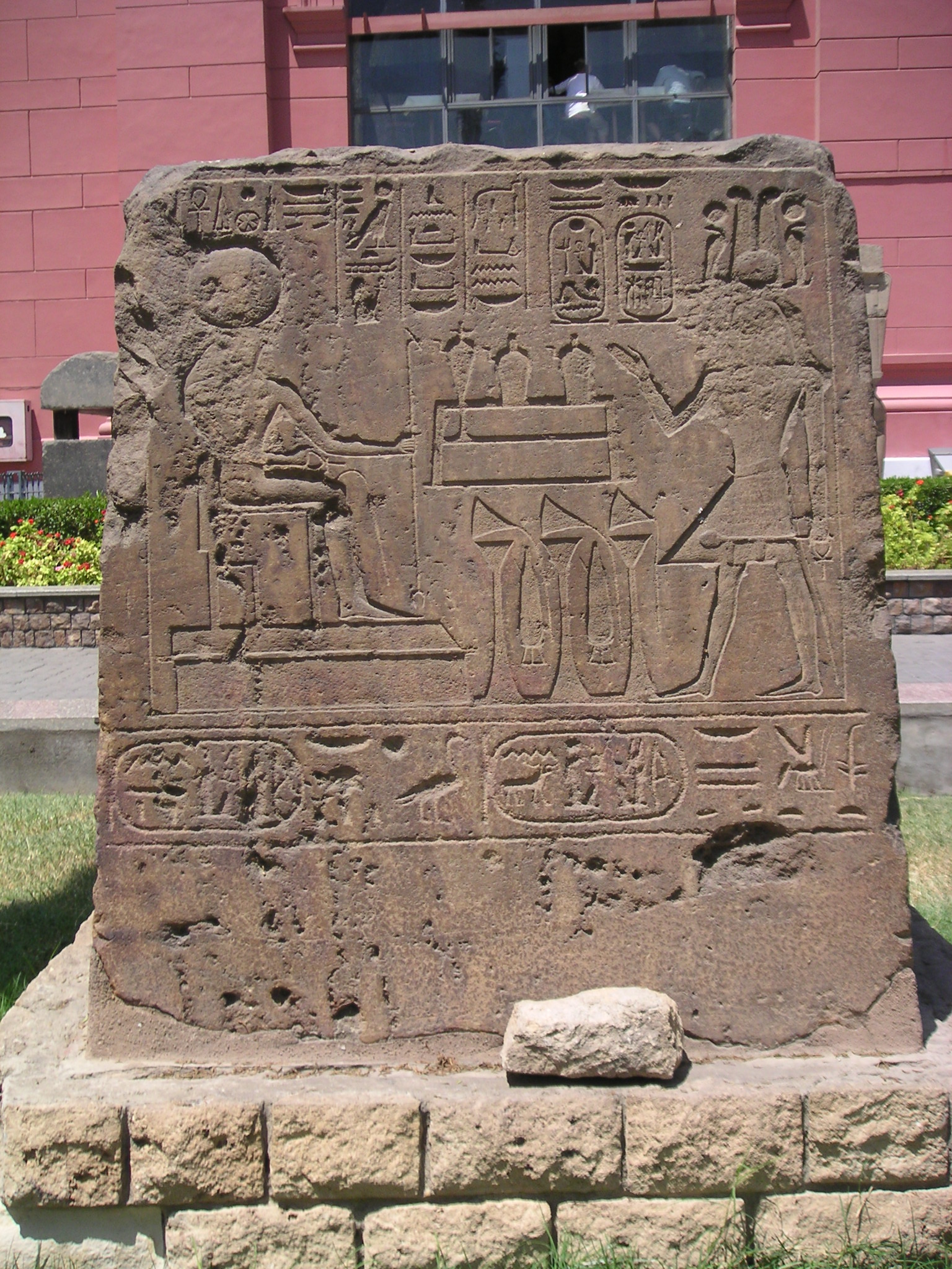 View of an other side of the base of the obelisk of Rameses II, from the Temple of Horus in Athribis. The scene represents the pharaoh offering to the god Horakhty, master of the Two Lands and master of Heliopolis - 19th Dynasty of Egypt - Garden of the Cairo Museum (photo 15-August-2005).